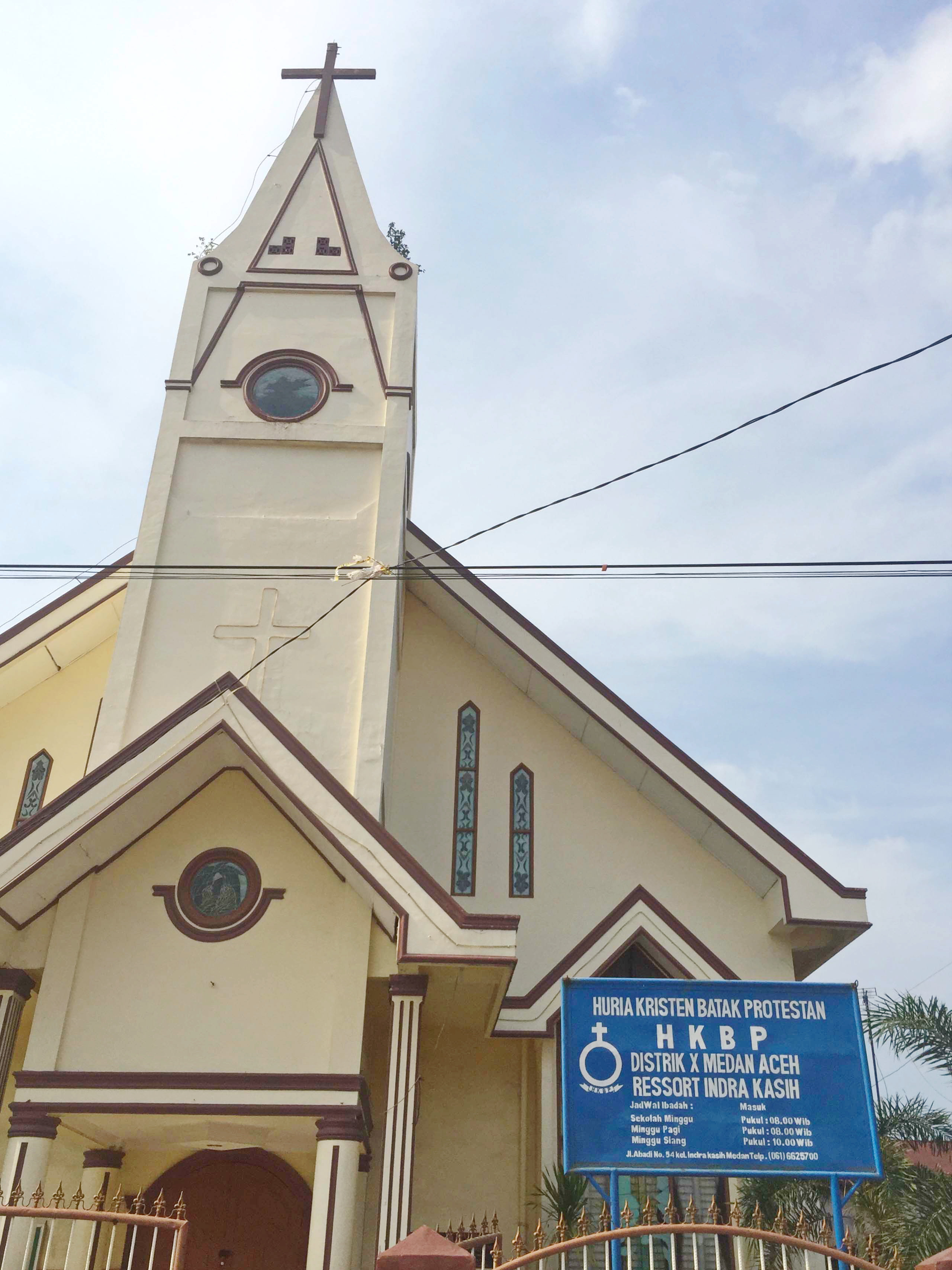 HKBP Indra Kasih, Res. Indra Kasih Church in Indra Kasih, Medan Tembung, Medan